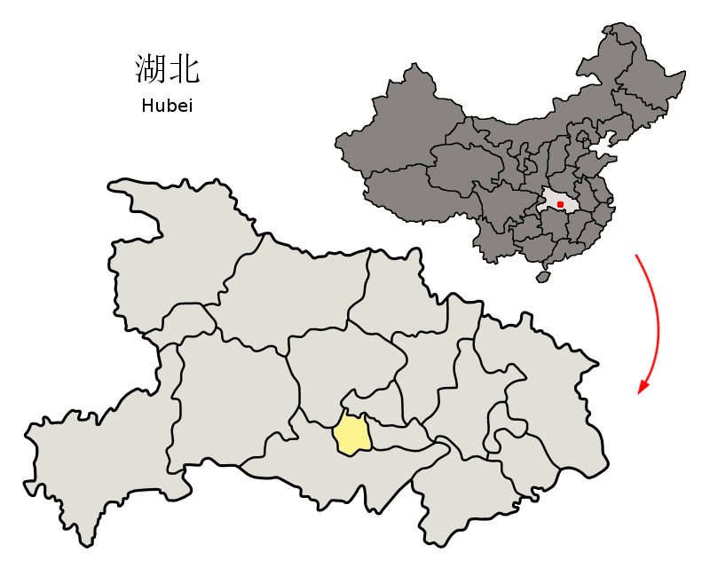 Location of Qianjiang City jurisdiction (yellow) within Hubei Province of China Map drawn in december 2007 using various sources, mainly : Hubei Province administrative regions GIS data: 1:1M, County level, 1990 Hubei Counties map from